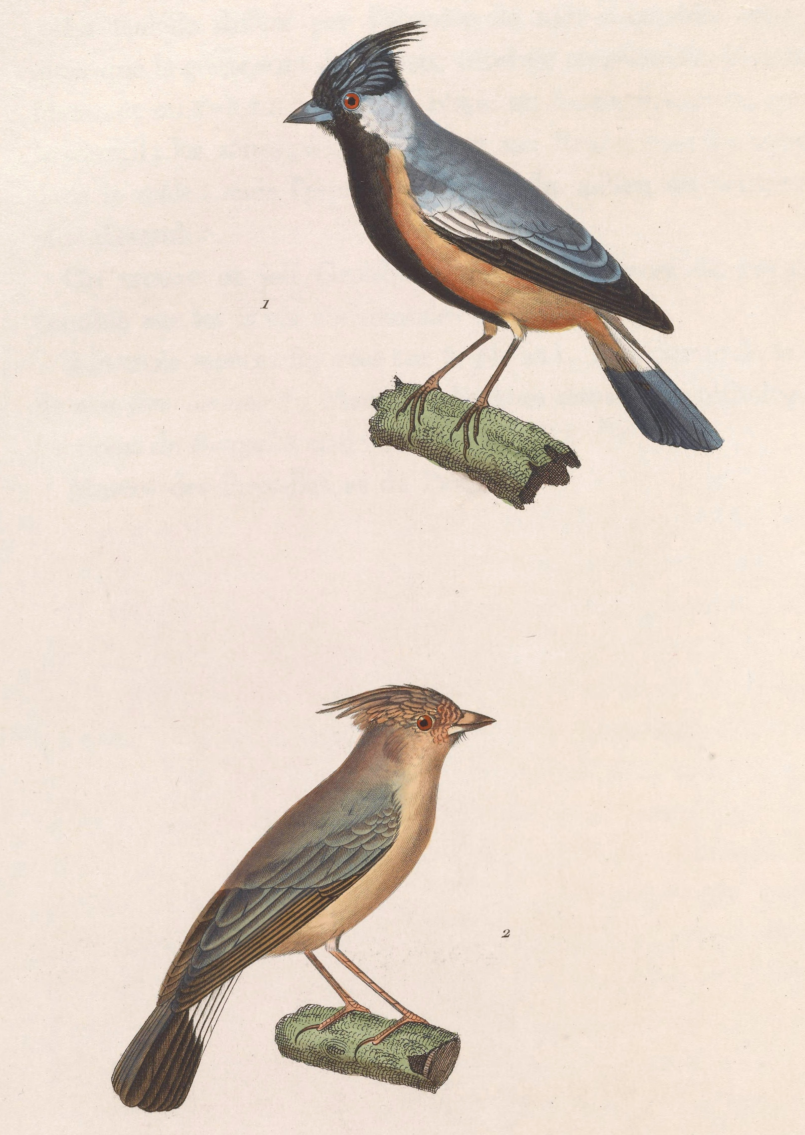 « Fringilla ornata » = Charitospiza eucosma (Coal-crested Finch) - male and female